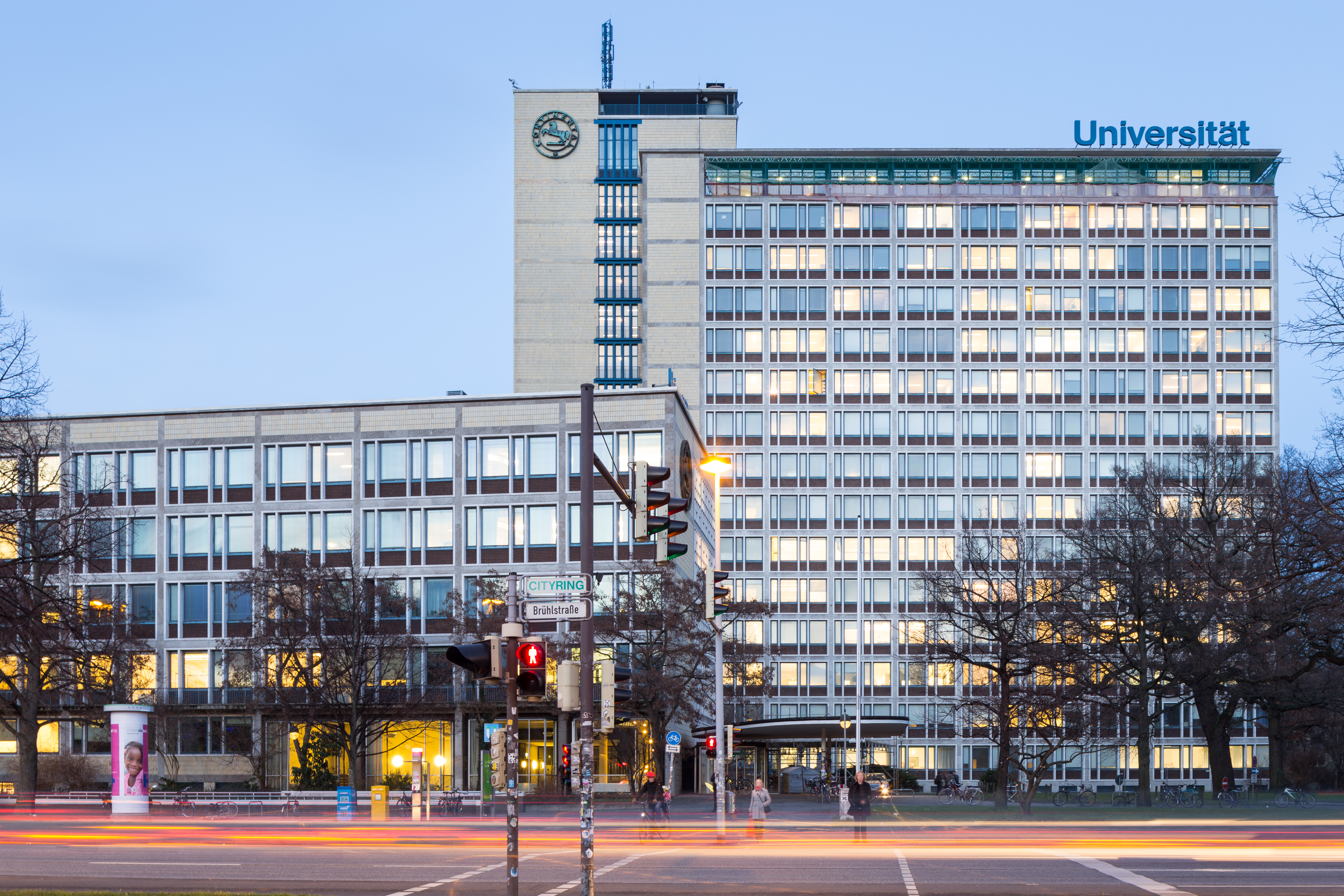 Office building of Leibniz Universitaet Hannover located at Koenigsworther Platz square (Conti-Campus) in Mitte quarter of Hannover, Germany.